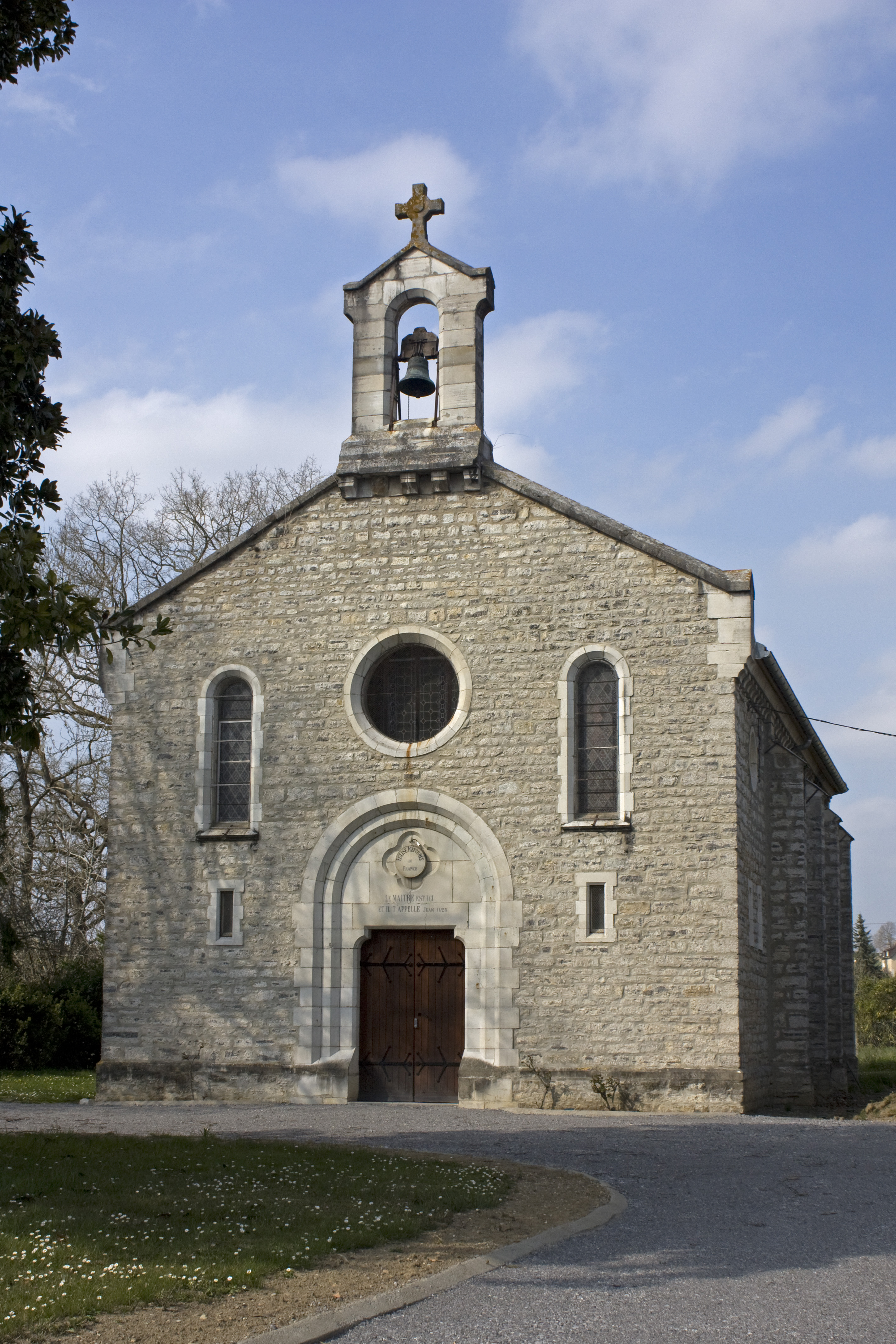 Temple of the Reformed Church of France.